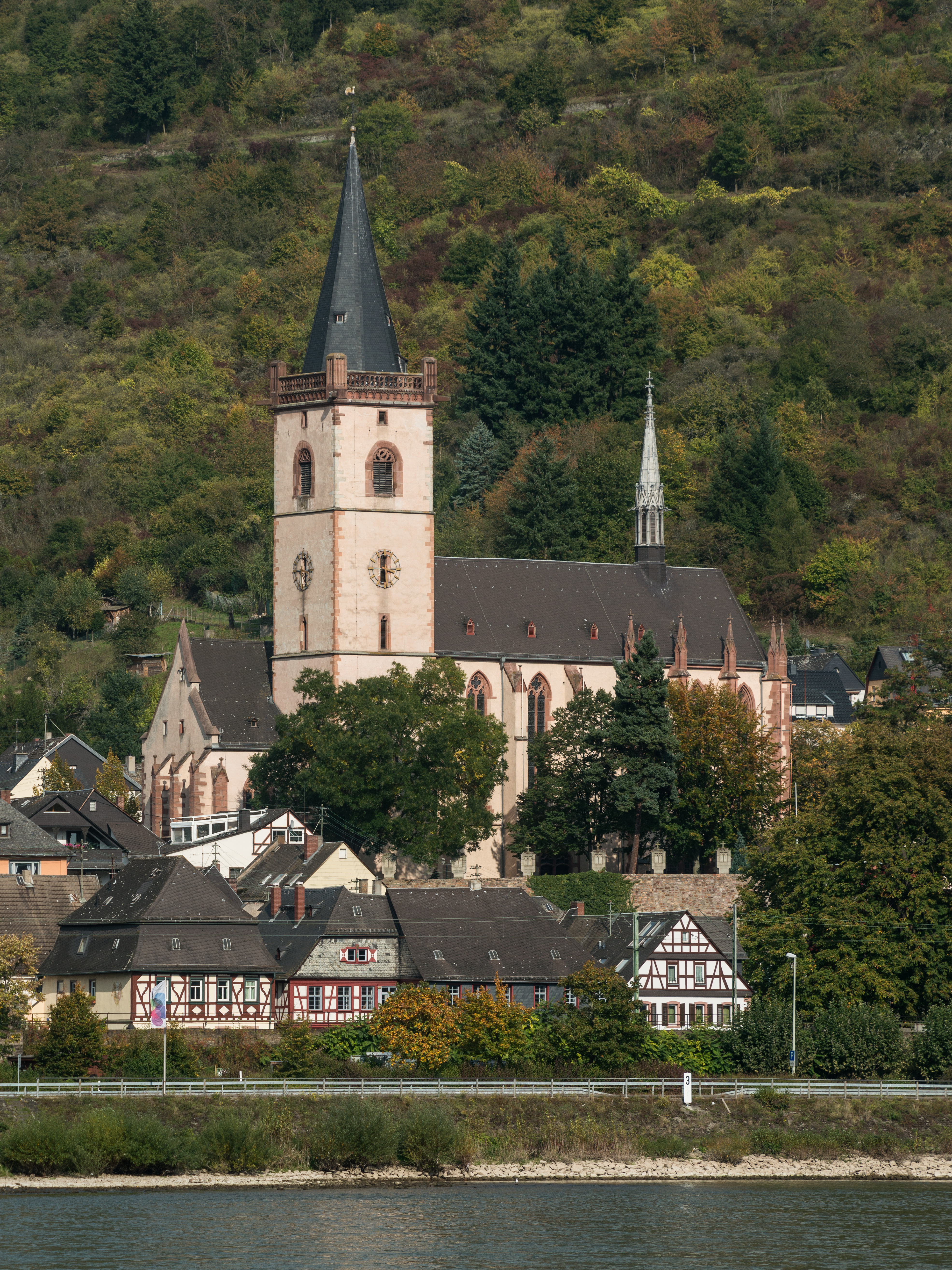 The church of Lorch (Rheingau), St. Martin, as seen from southwest